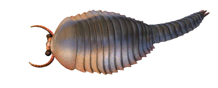 Life restoration of Fuxianhuia protensa